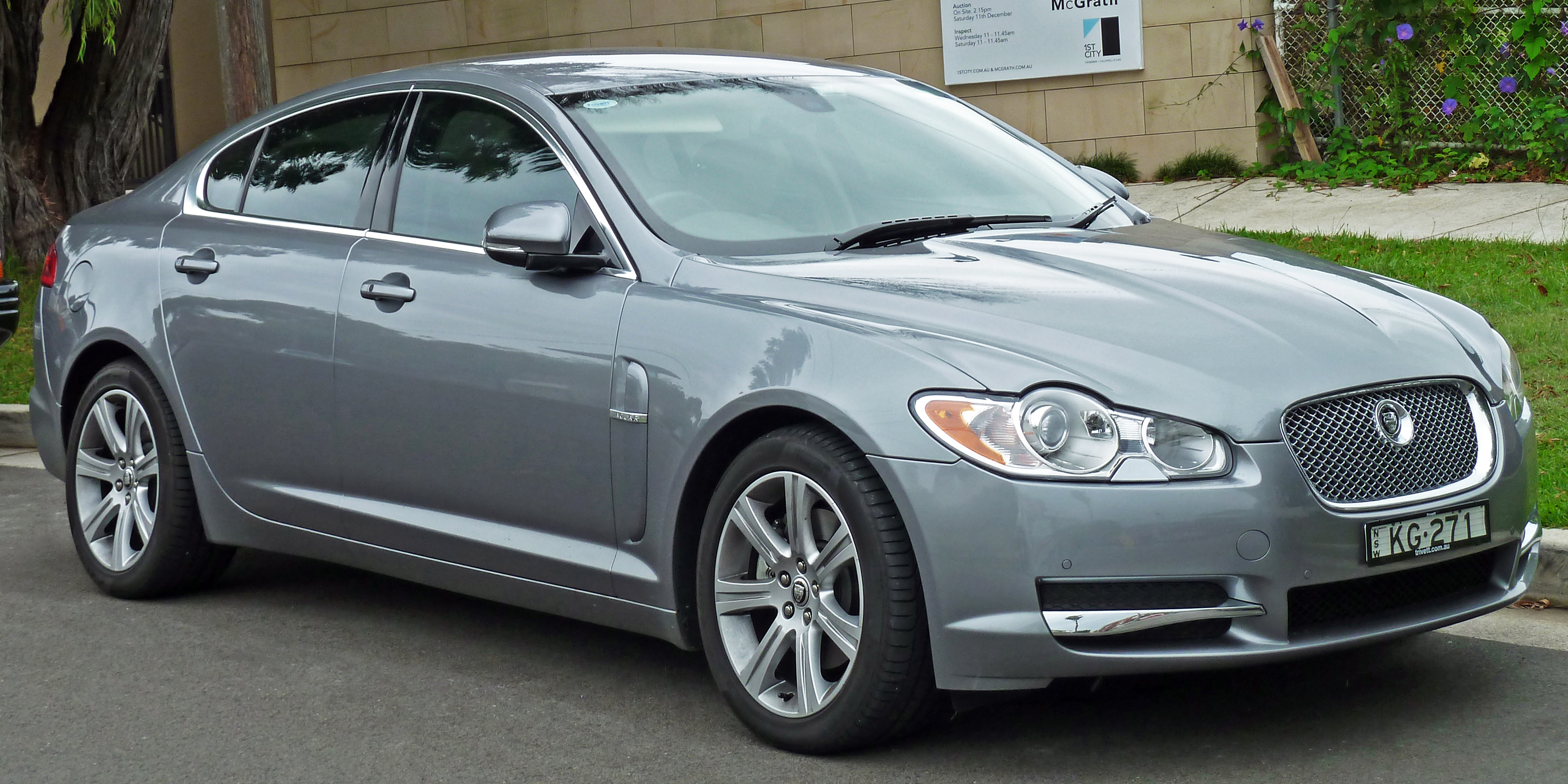 2009–2010 Jaguar XF (X250 MY10) Luxury sedan. Photographed in Bellevue Hill, New South Wales, Australia.